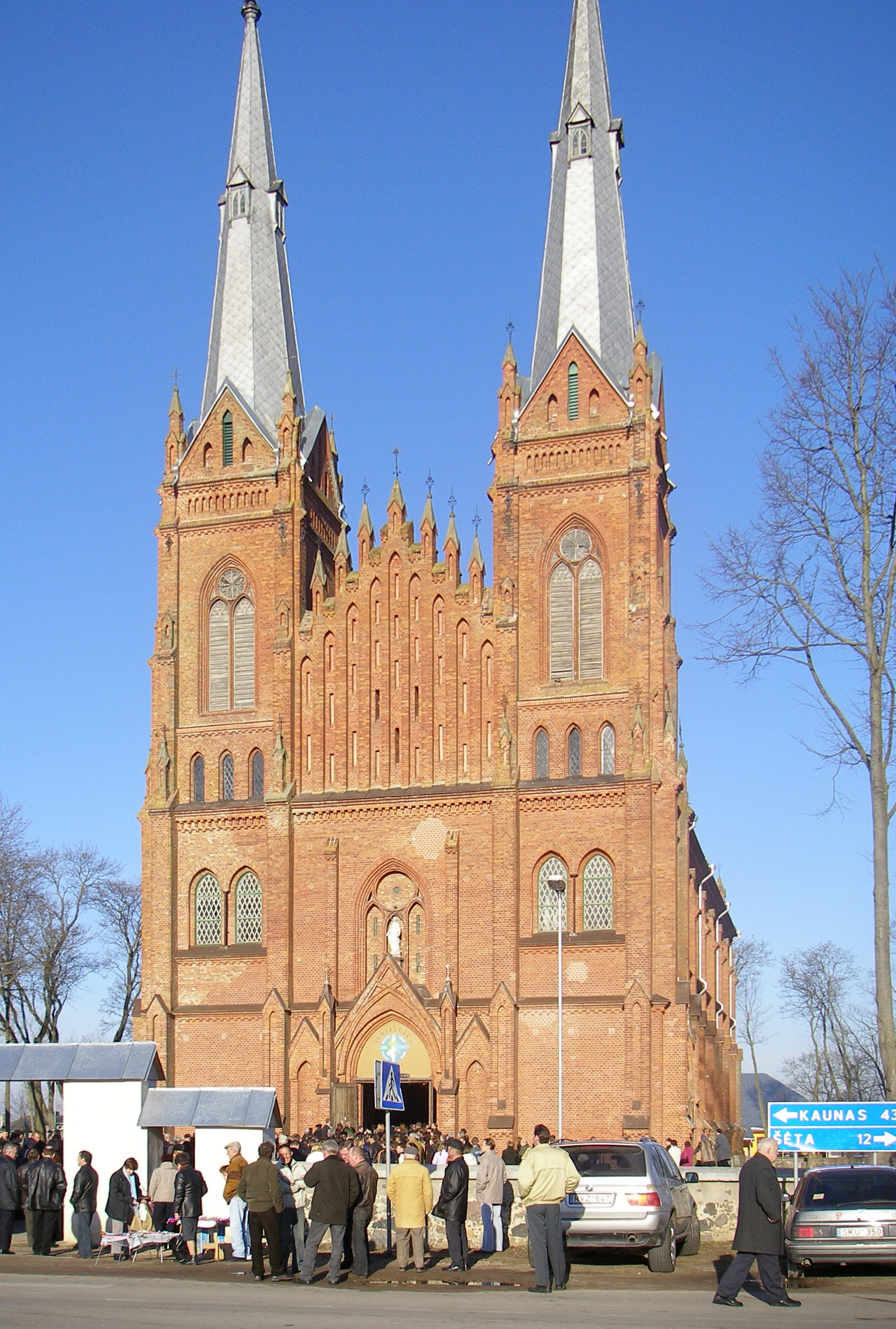 The church of Žeimiai